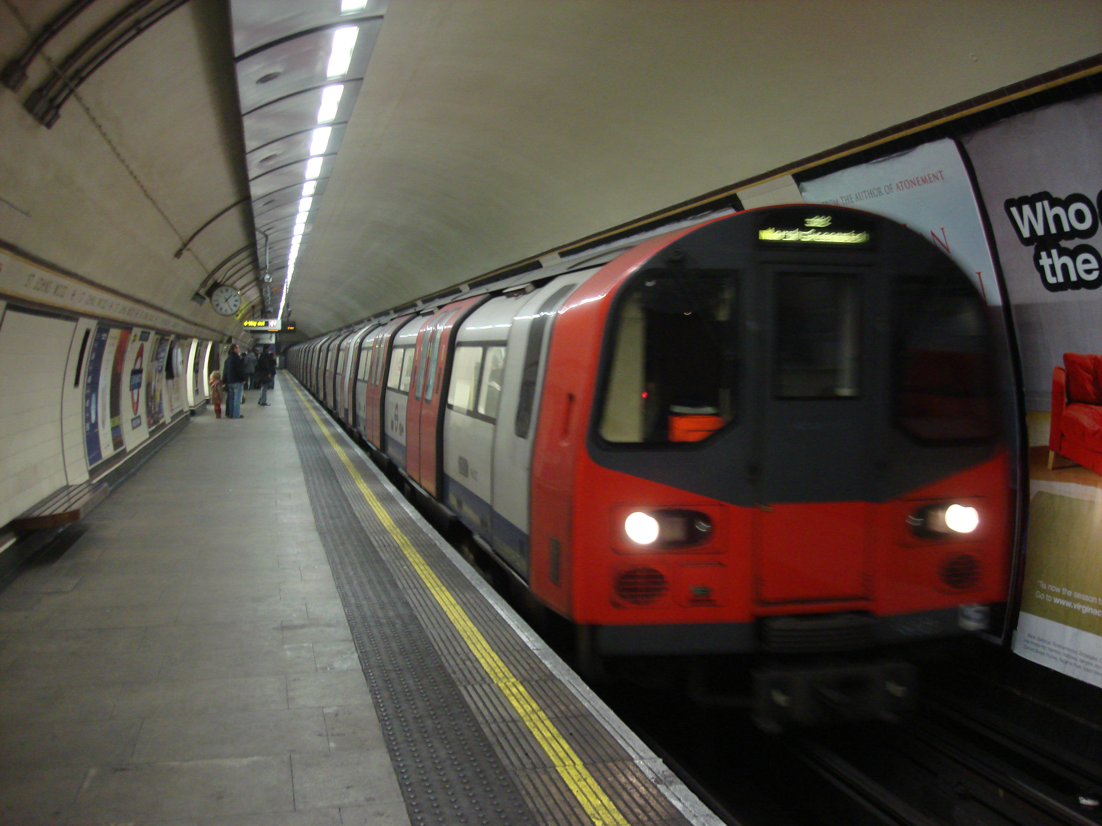 A train of London Underground 1996 Stock stopping at the southbound platform at St Johns Wood tube station